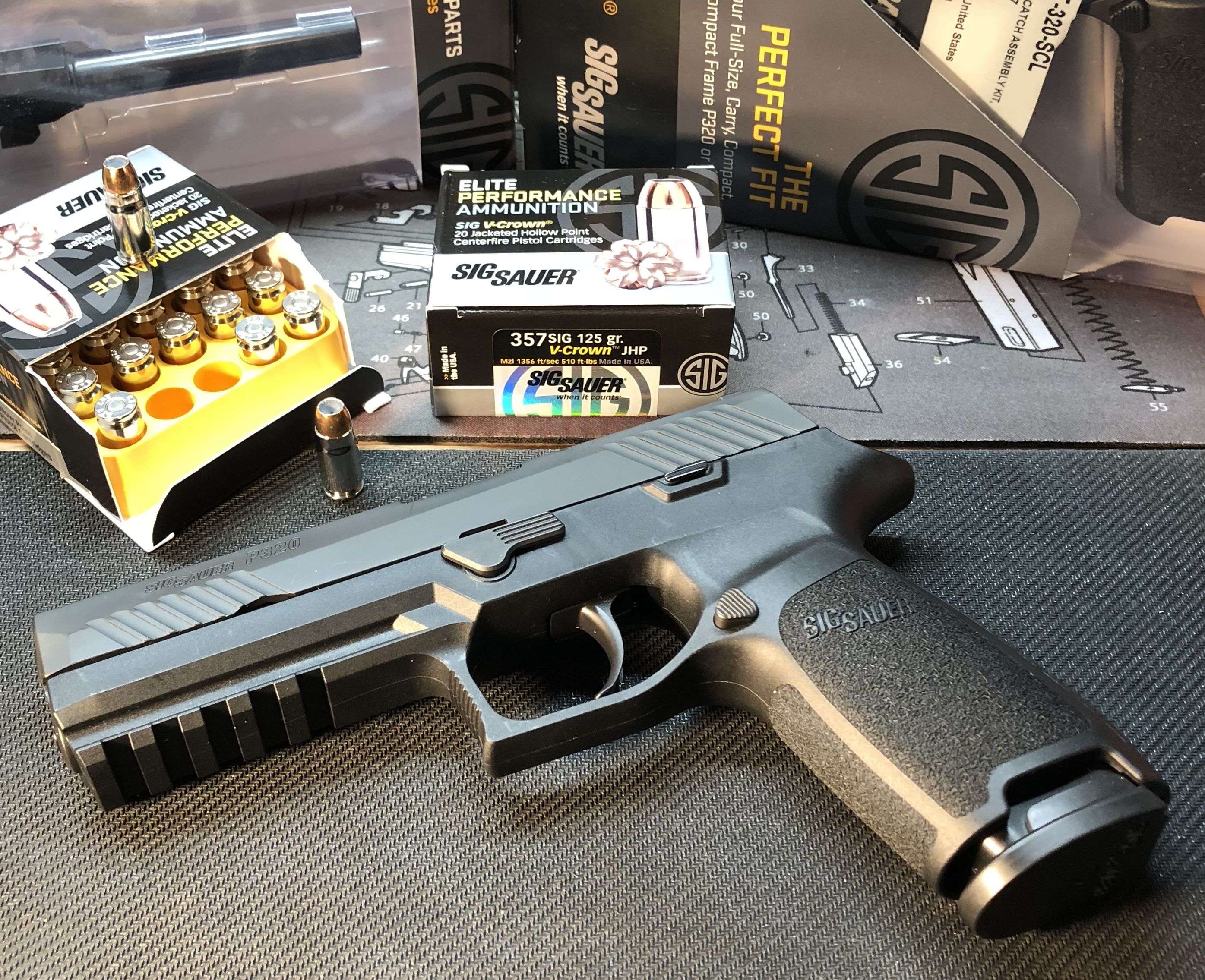 Photograph of a Sig Sauer, Inc. Model P320 Handgun